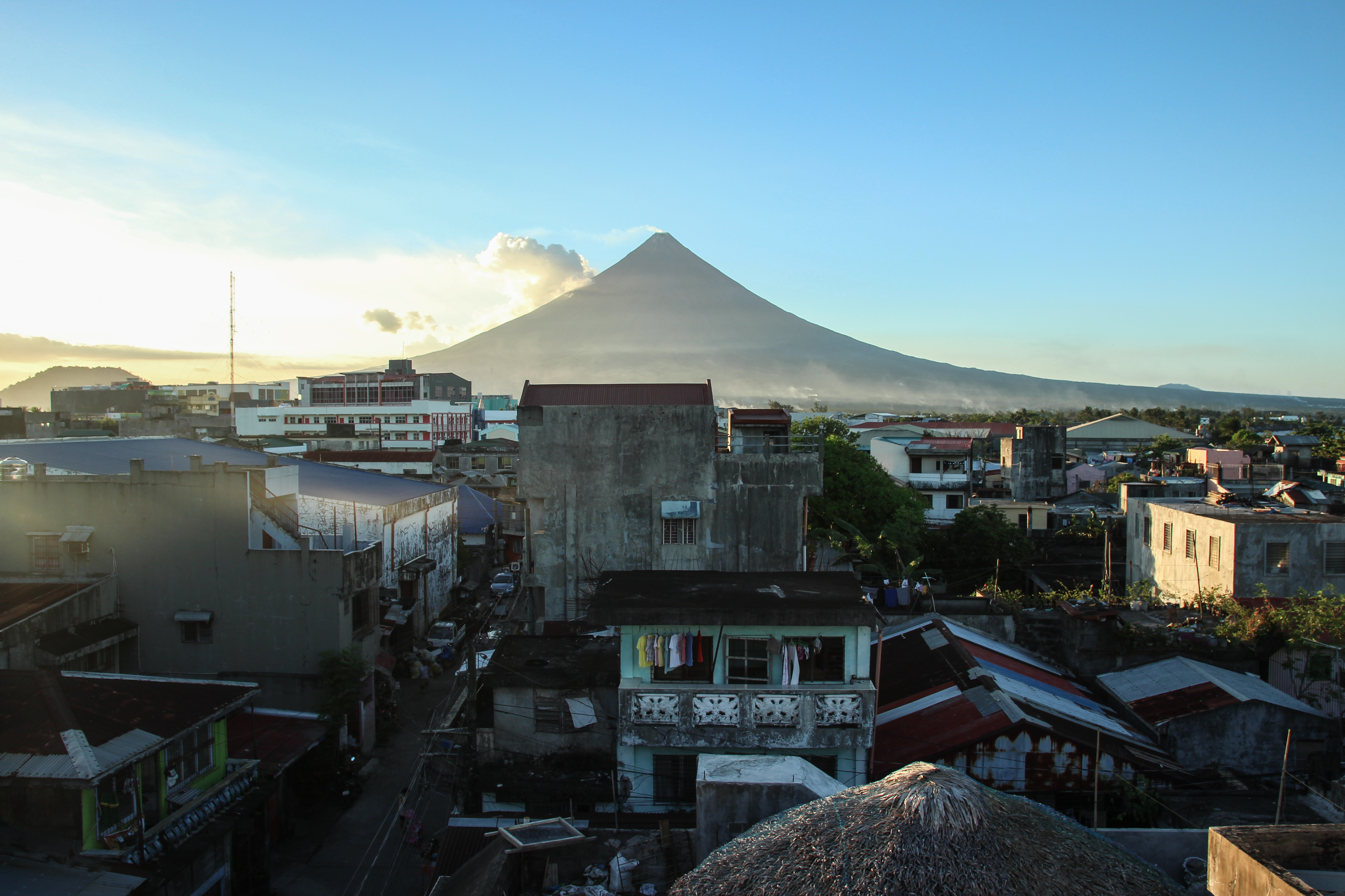 Skyline of Legazpi with Mayon volcano as background.